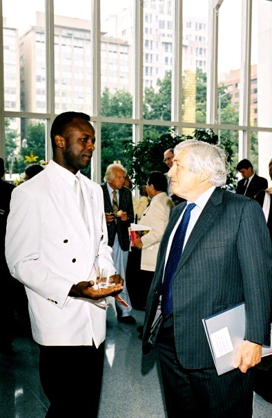 Ibiyinka Alao describing his artworks to James D. Wolfensohn, Chairman Emeritus of the Carnegie Hall and Former President of the World Bank group during his art exhibit hosted by the World Bank Art Program and the Smithsonian Museum in Washington DC.